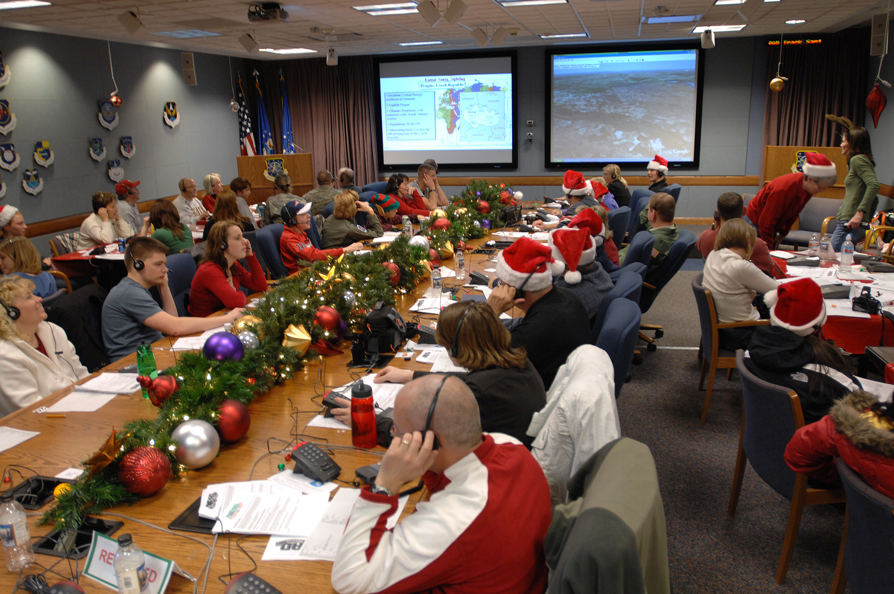 NORAD Tracks Santa Operations Center 2007